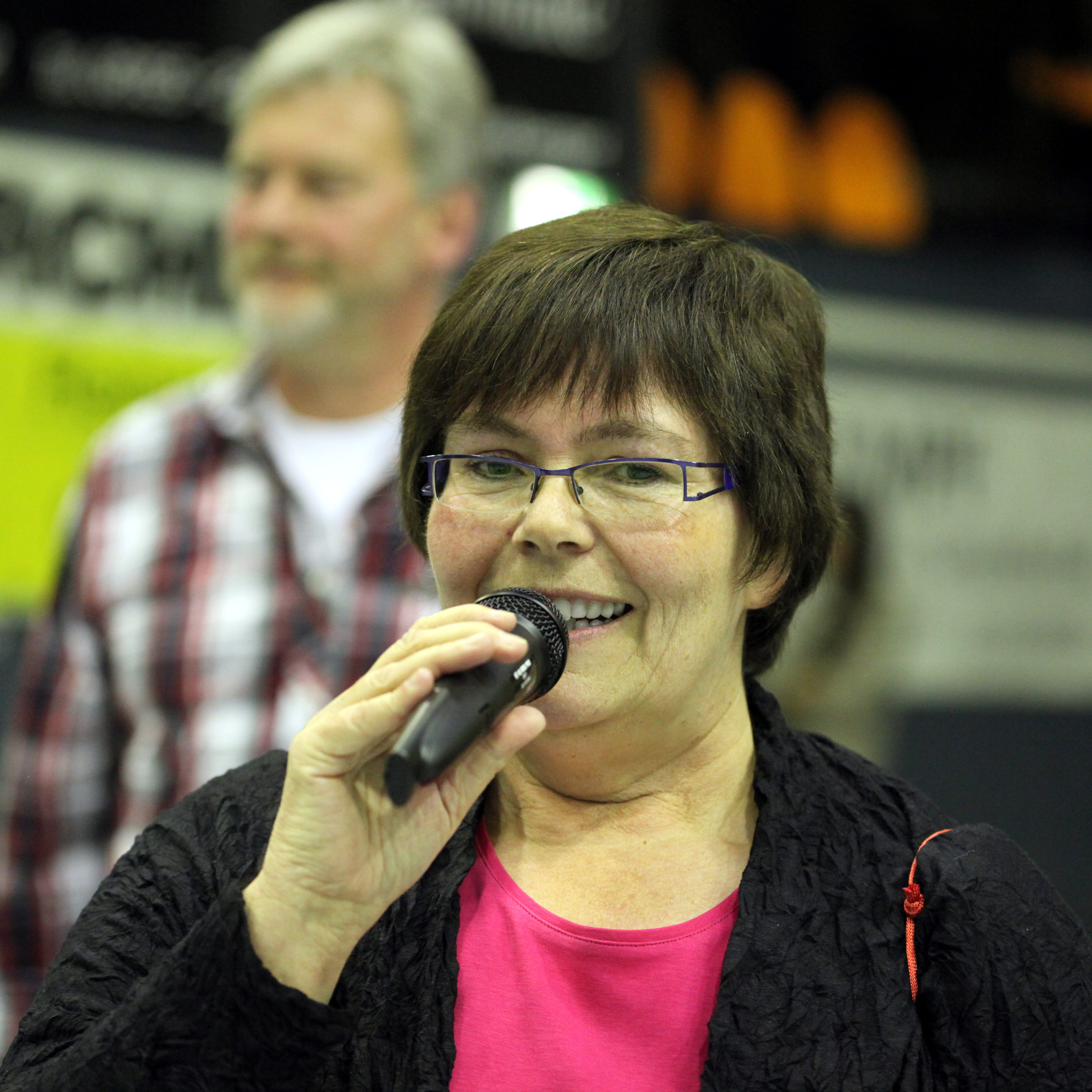 Gabriele Winter, mayoress of Griesheim (Hesse, Germany)